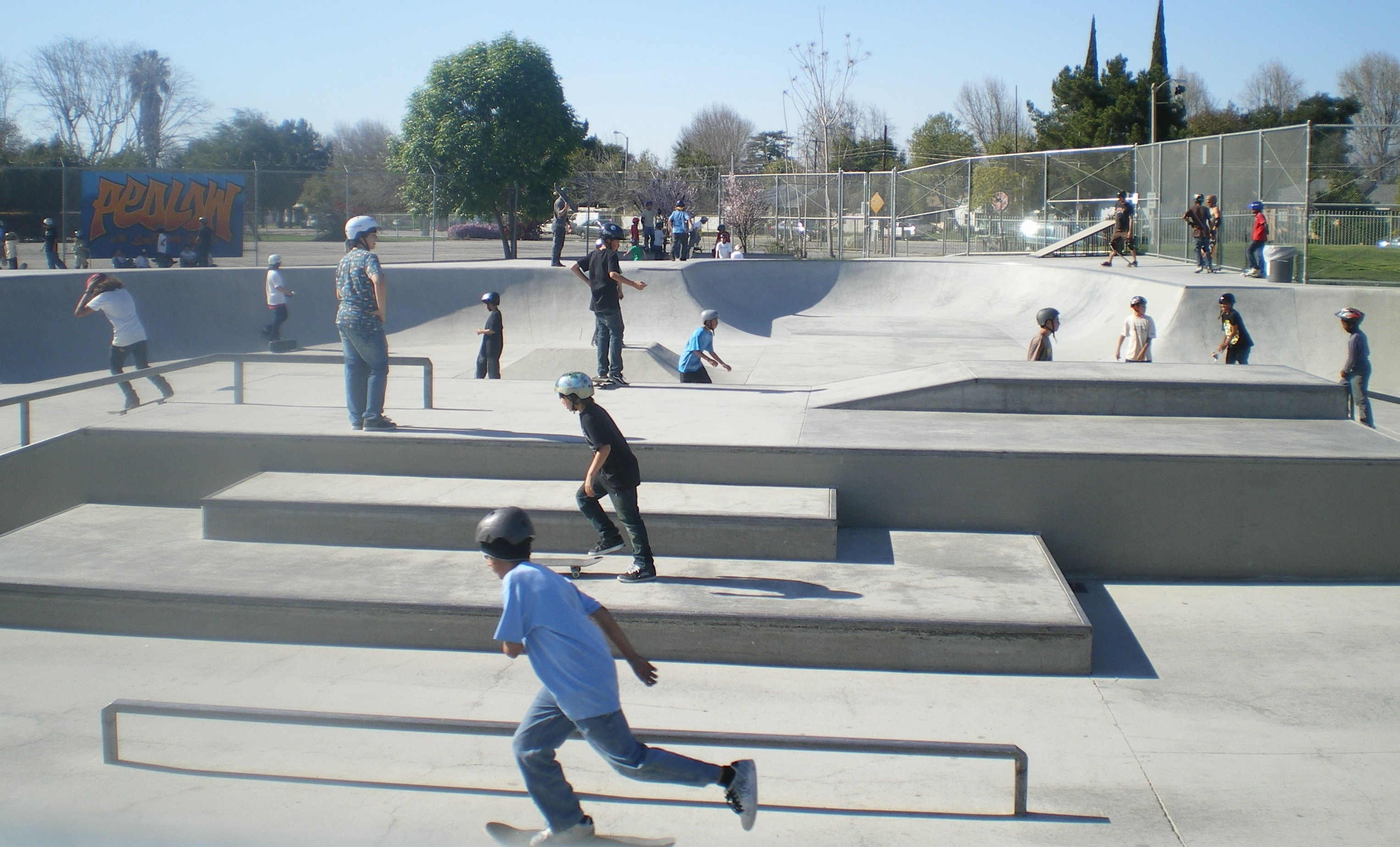 Pedlow Field Skate Park, Victory Blvd., San Fernando Valley, CA